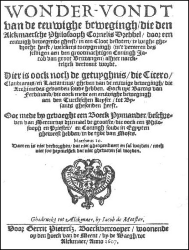 First translation of the Corpus Hermeticum into Dutch. Title: Wonder-vondt. Frontispiece.